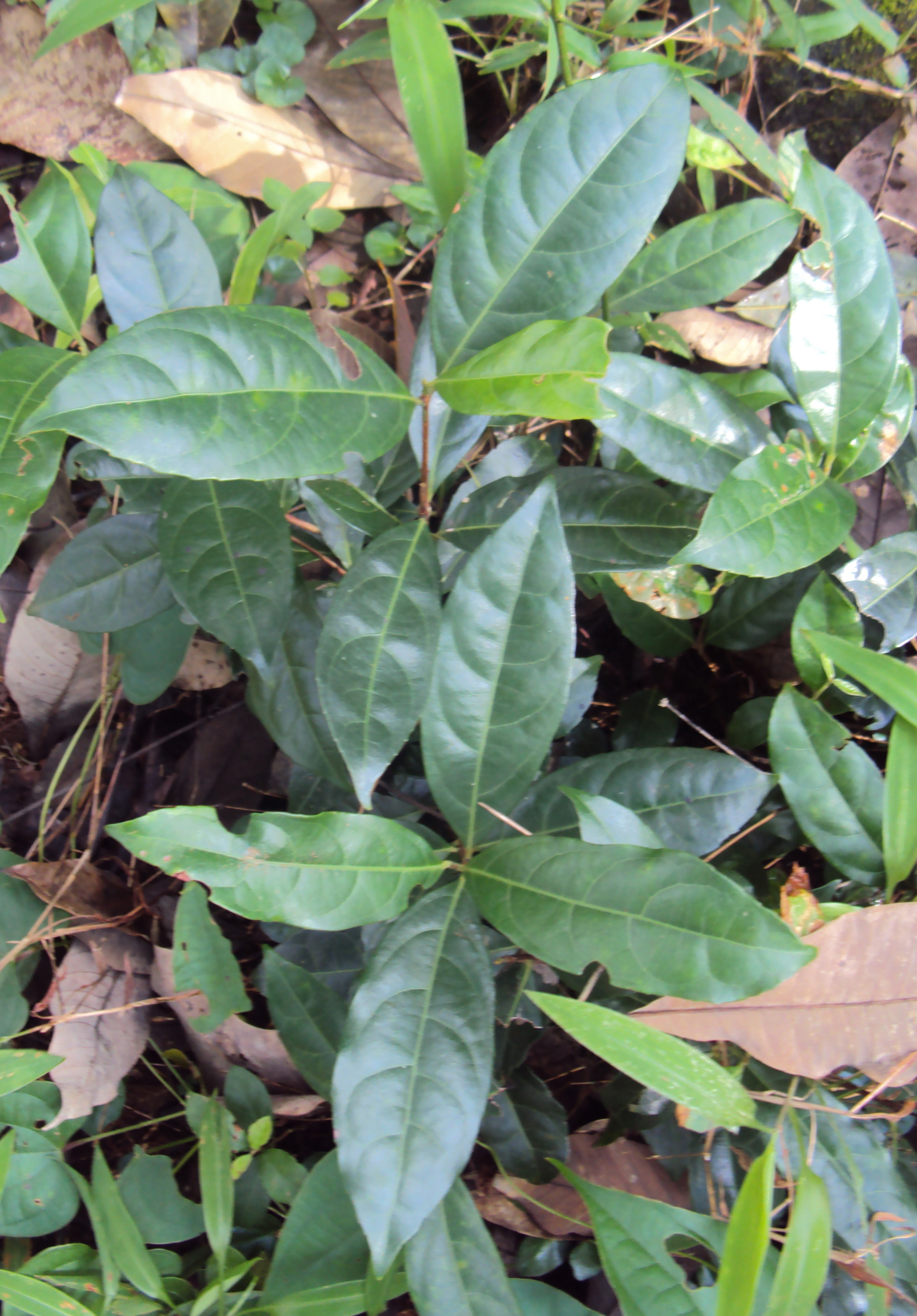 Loeseneriella arnottiana